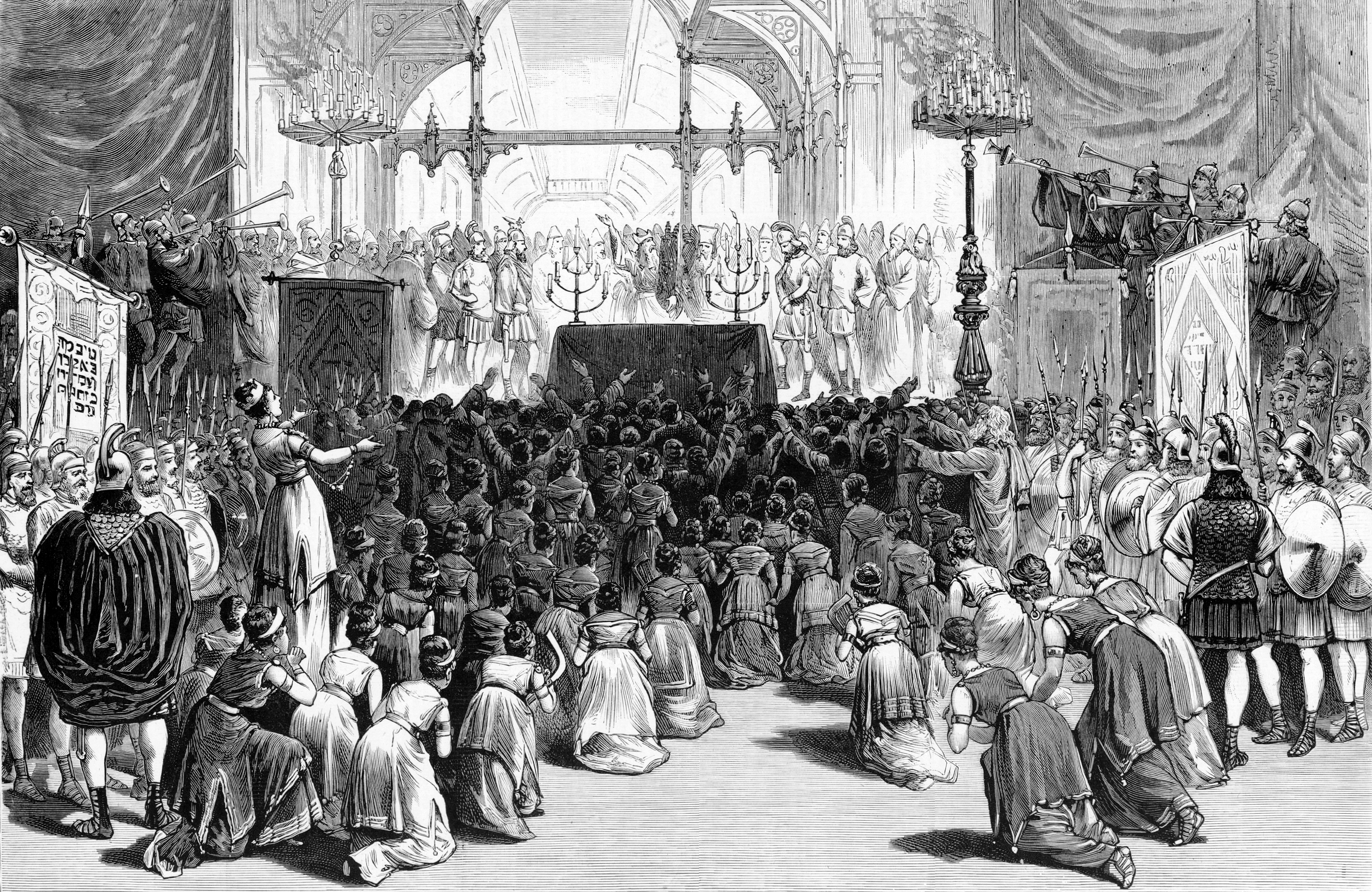 Hanukkah celebration by the Young Men's Hebrew Association at the Academy of Music in New York City, 16 December 1880. Scene of the sixth tableau, "Tthe Dedication of the Temple". Illustration in "Frank Leslie's Illustrated Newspaper", 3 January 1880, p. 316.